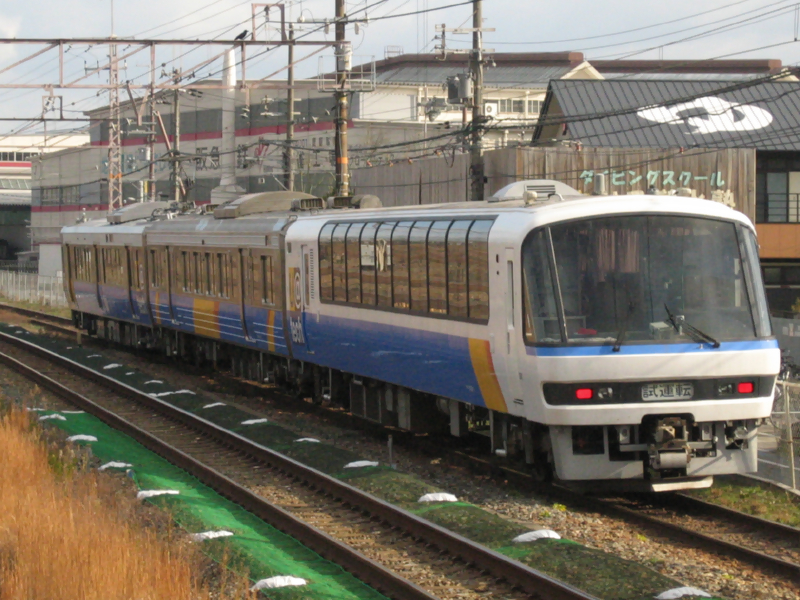 Kuya 212-1 at Kishibe Station